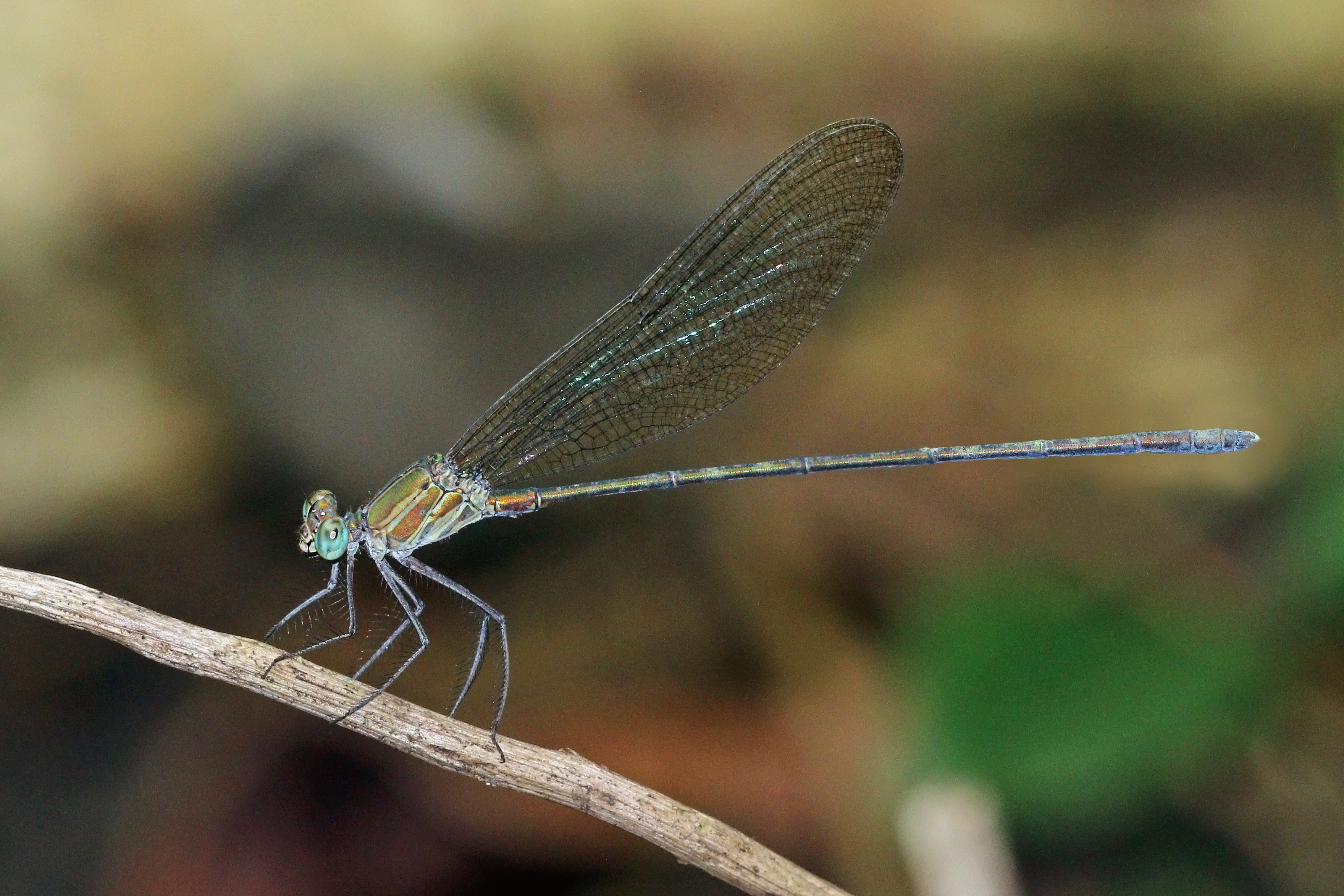 Glistening demoiselle (Phaon iridipennis) male, Cape Coast, Ghana